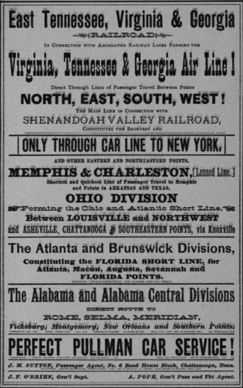 Advertisement in the 1884 Knoxville, Tennessee, USA, city directory, for the East Tennessee, Virginia and Georgia Railroad, which operated out of the city in the latter of half of the 19th century. The railroad was absorbed by the Southern Railway in 1894.